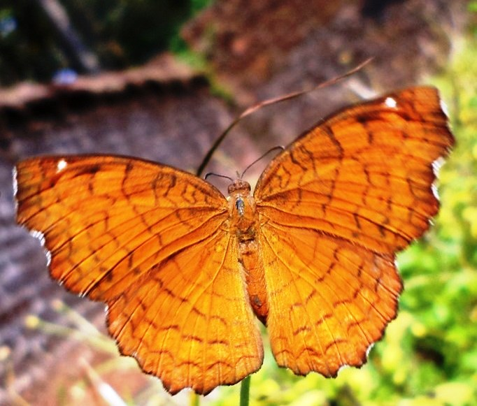 Angled Castor up